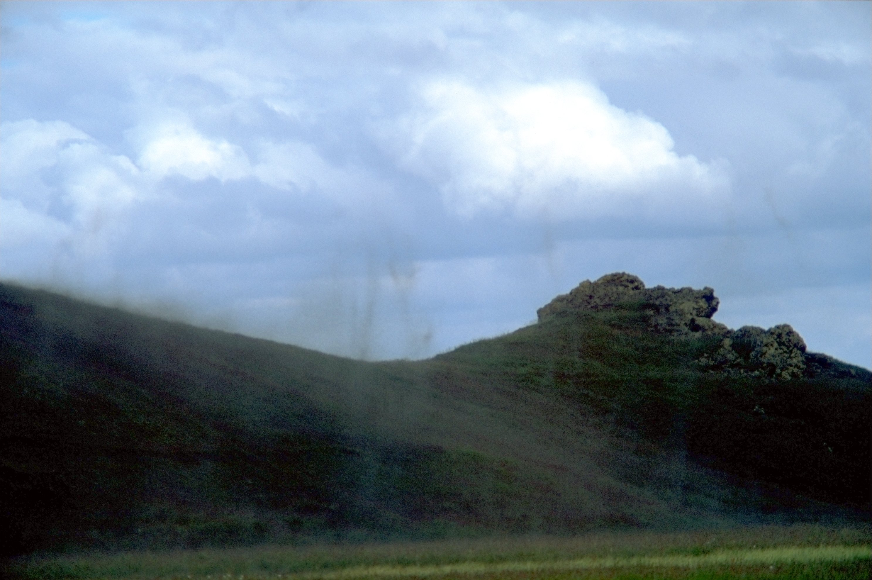 Midges at bank of lake Mývatn, Iceland Photo was taken using the following technique: Film: Fuji Velvia Lens: 4/70-210 Filter: Body: Minolta 7 Support: Manfrotto 190B Image with Information in English Bild mit Informationen auf Deutsch